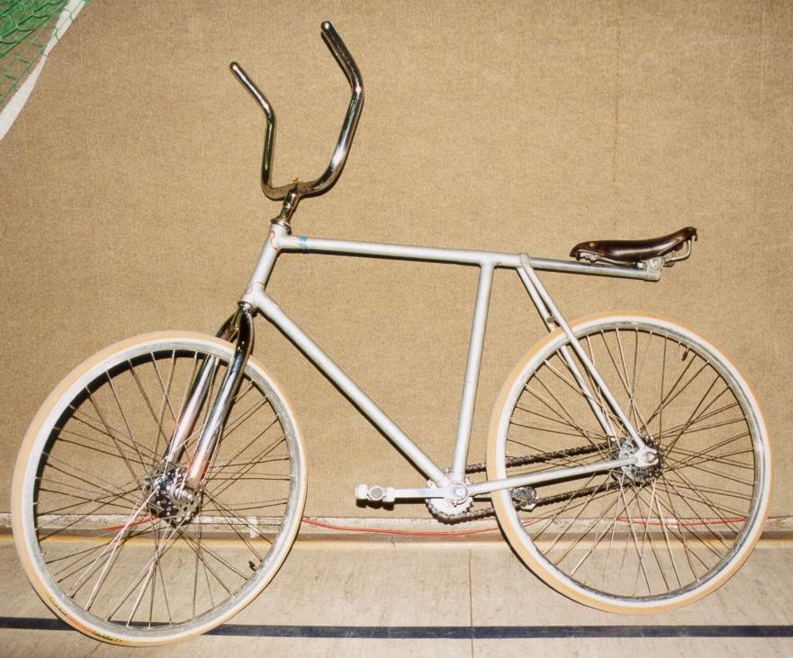 Bike for a bikeball.